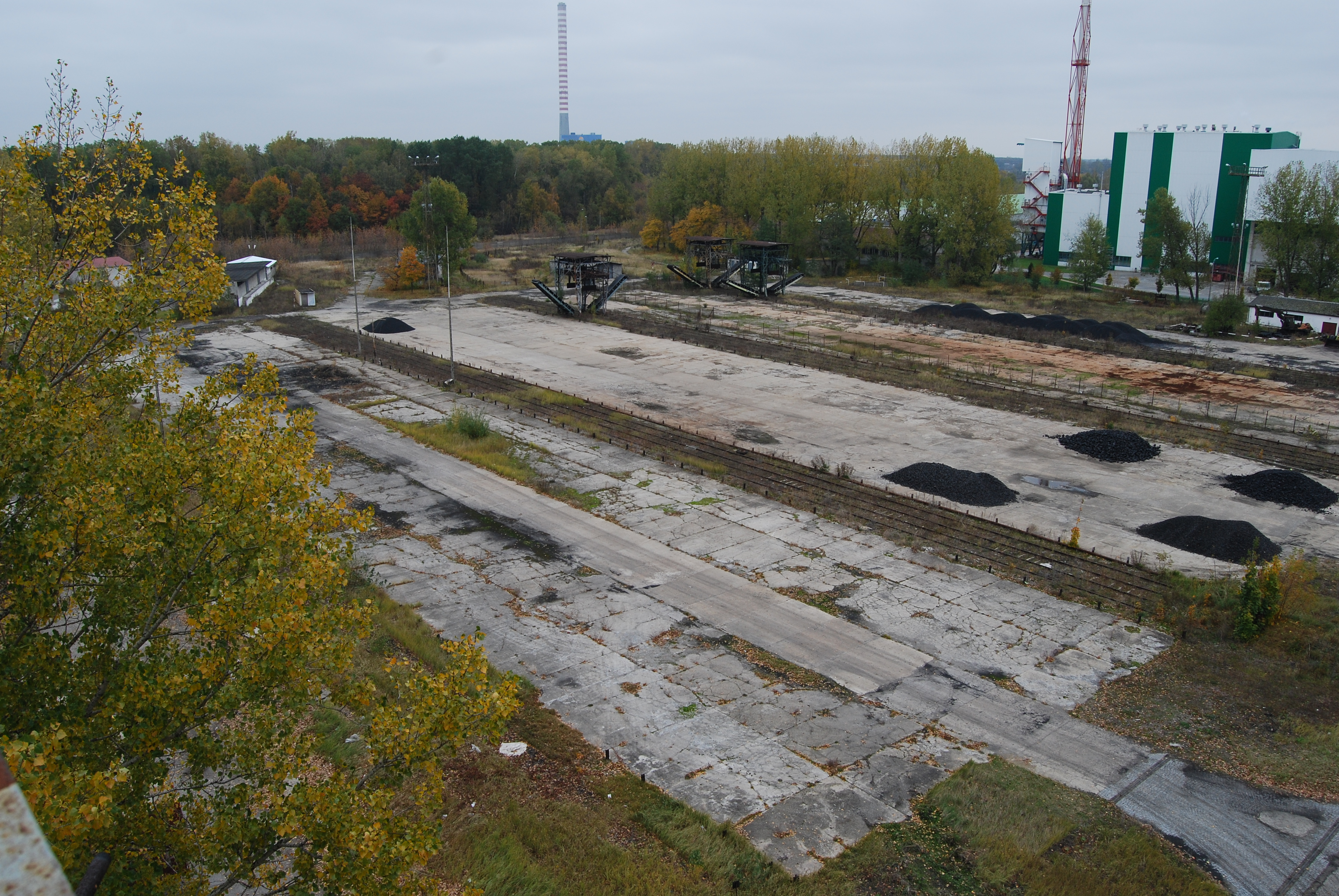 Stołeczne Przedsiębiorstwo Handlu Opałem i Materiałami Budowlanymi - baza na ul. Zabranieckiej w Warszawie